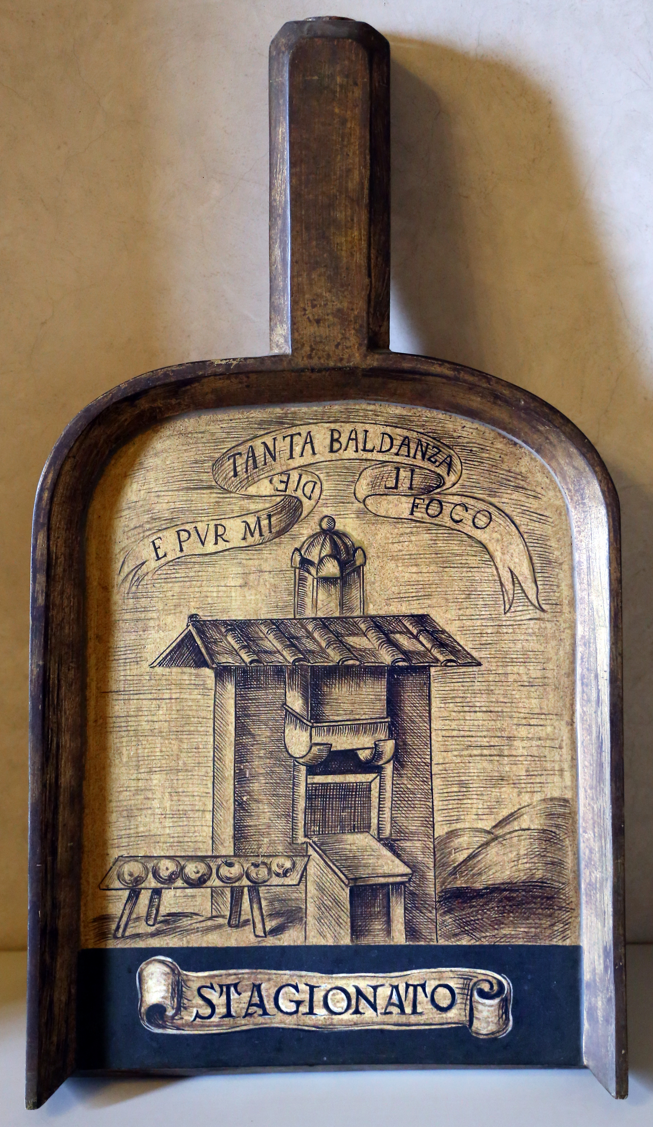 Shovels of Accademici della Crusca